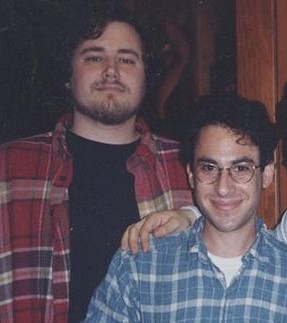 Bill Oakley and Josh Weinstein in 1994.